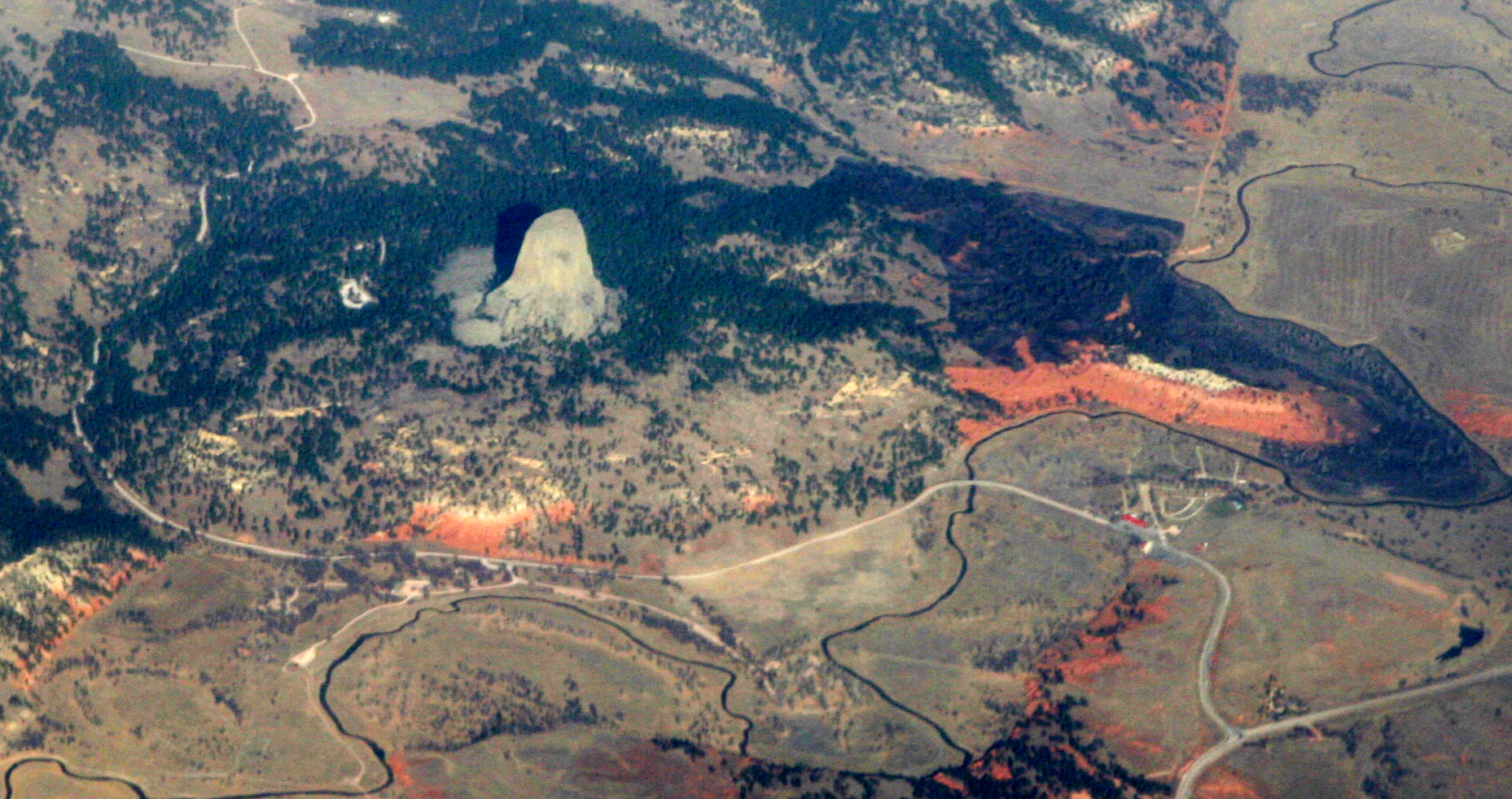 Devils Tower, a national monument in northeastern Wyoming, above the Belle Fourche River. Familiar to most folks as the setting for Close Encounters of the Third Kind, it was known by the Sioux as "Mato Tipila, which means “Bear Lodge”. In fact it is the neck of a long-extinct volcano. The circular shape of the land around it suggests the shape of the volcano itself. While Devils Tower is Tertriary in age (40-some million years old), the rock through which it intruded is a good bit older. The red rock is the Permian-Triassic Spearfish Formation, about a quarter-billion years old. Above it the white layer is of the more recent (Jurassic) Gypsum Spring Formation, which interests me mostly because, like so many other formations in Wyoming, it was named by J. David Love, the great Rocky Mountain Geologist who was the primary human subject of John McPhee's books Rising from the Plains, and Annals of the Former World.